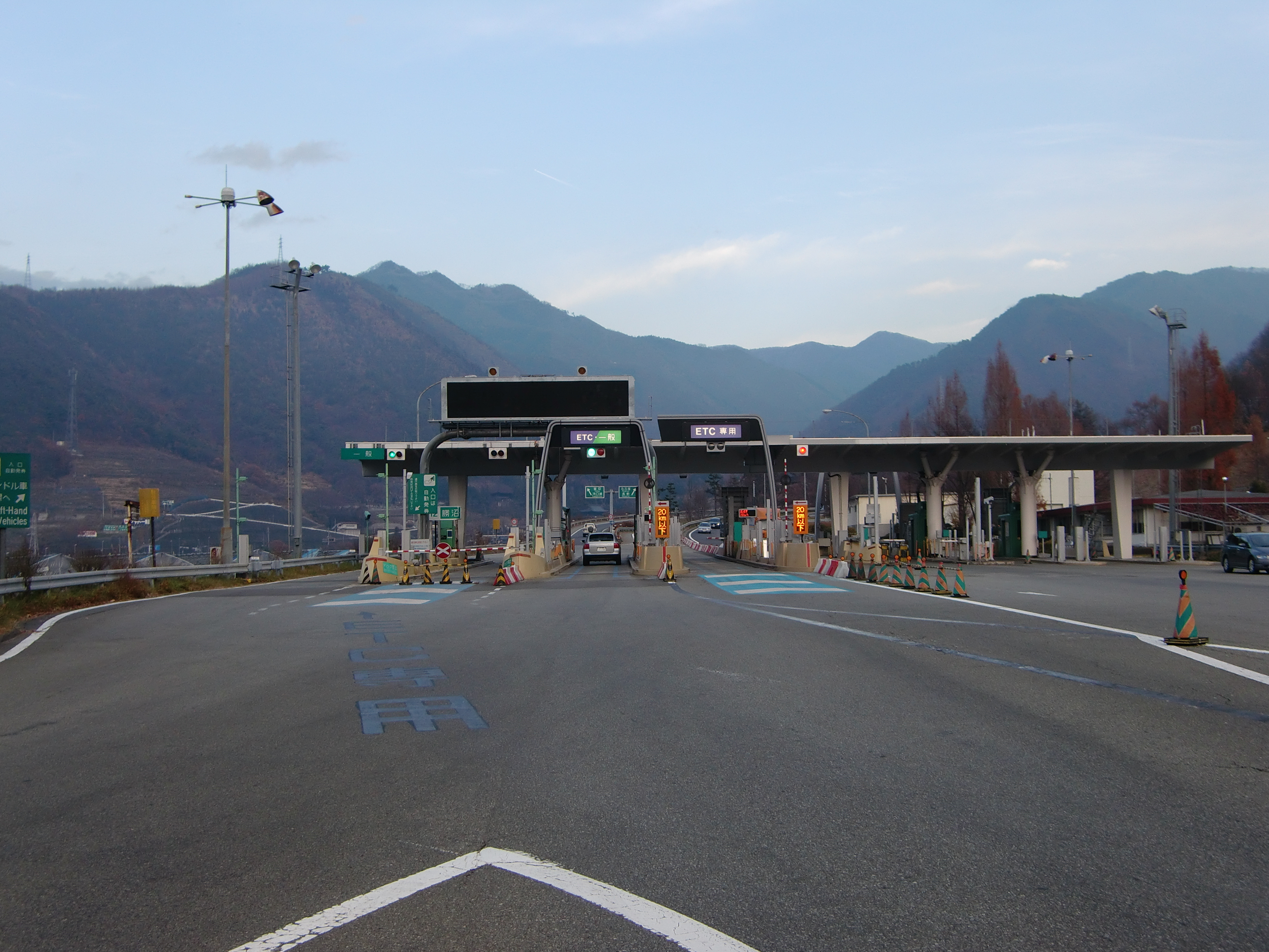 Katsunuma_Inter_Cange.